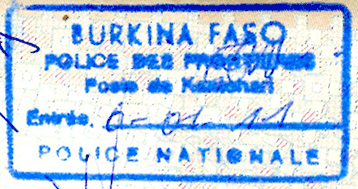 Burkina Faso entry stamp